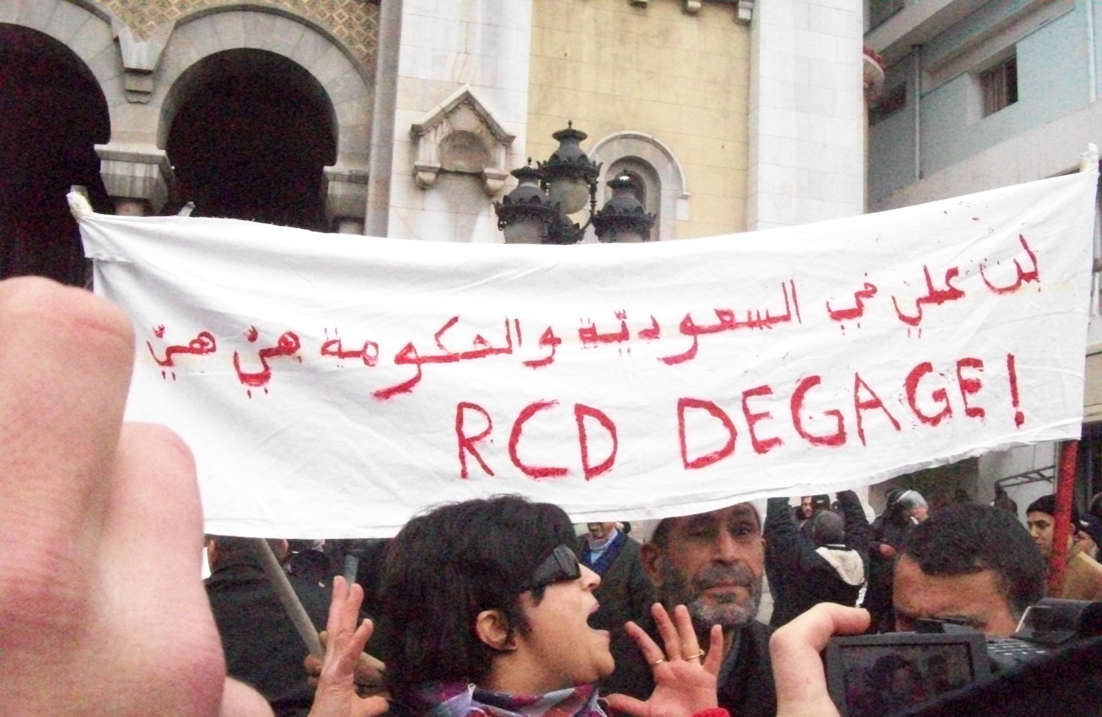 Full story: القصة l'histoire